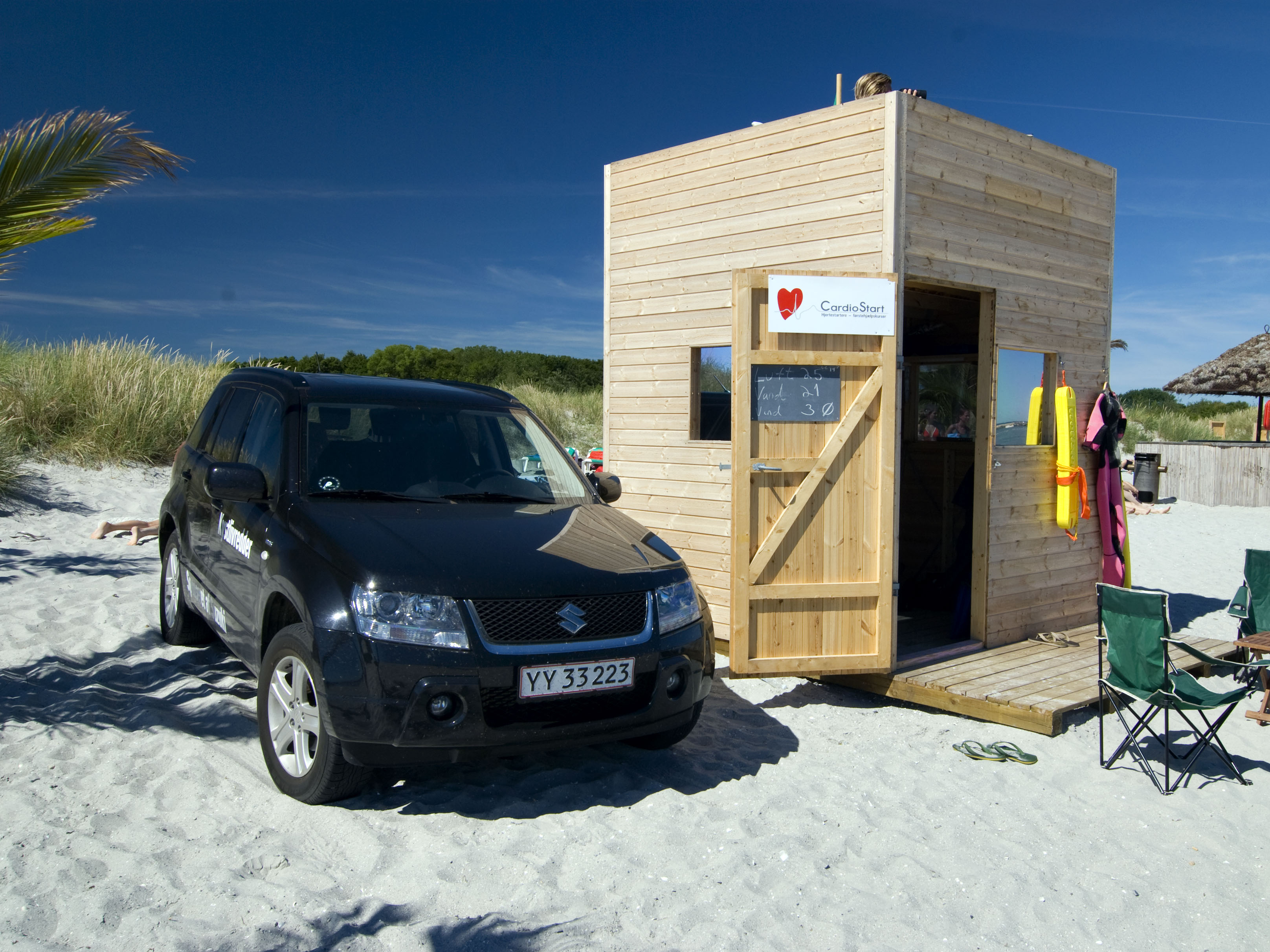 The Palm Beach in Frederikshavn. Life-guard in his tower and with his vehicles parked. More info at palmestranden.dkDansk: Frederikshavns Palmestrand. Livredder i sit tårn og med køretøj parkeret ved siden af. Mere info på palmestranden.dk